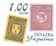 Stamp of Ukraine